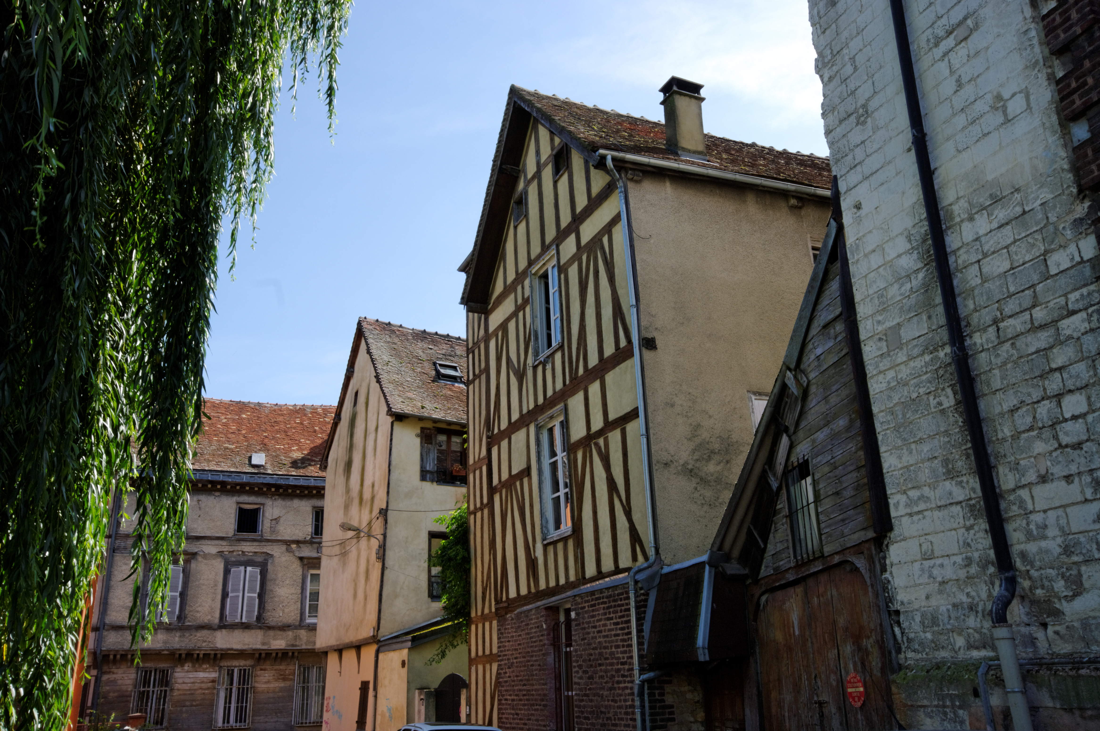 Old Jewish Area, Troyes of Rachi, France